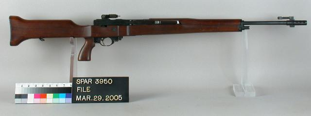 U.S. RIFLE T25 .30 (T65) SN# 3 Manufactured by Springfield Armory, Springfield, Ma. - Weapon test fired 3,500 rds. No breakages or need to replace weakened components. Left side of handguard broken off. Upper sling swivel missing. No magazine.